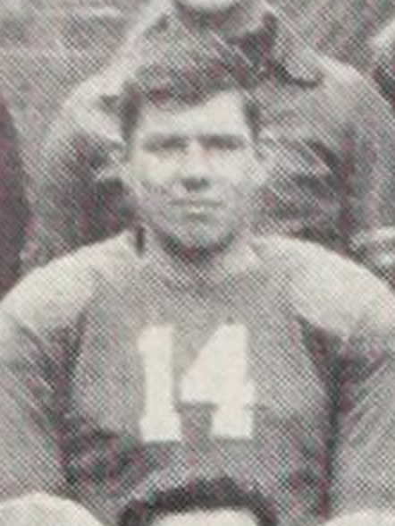 Rudy Grass circa 1946 at the University of Toronto